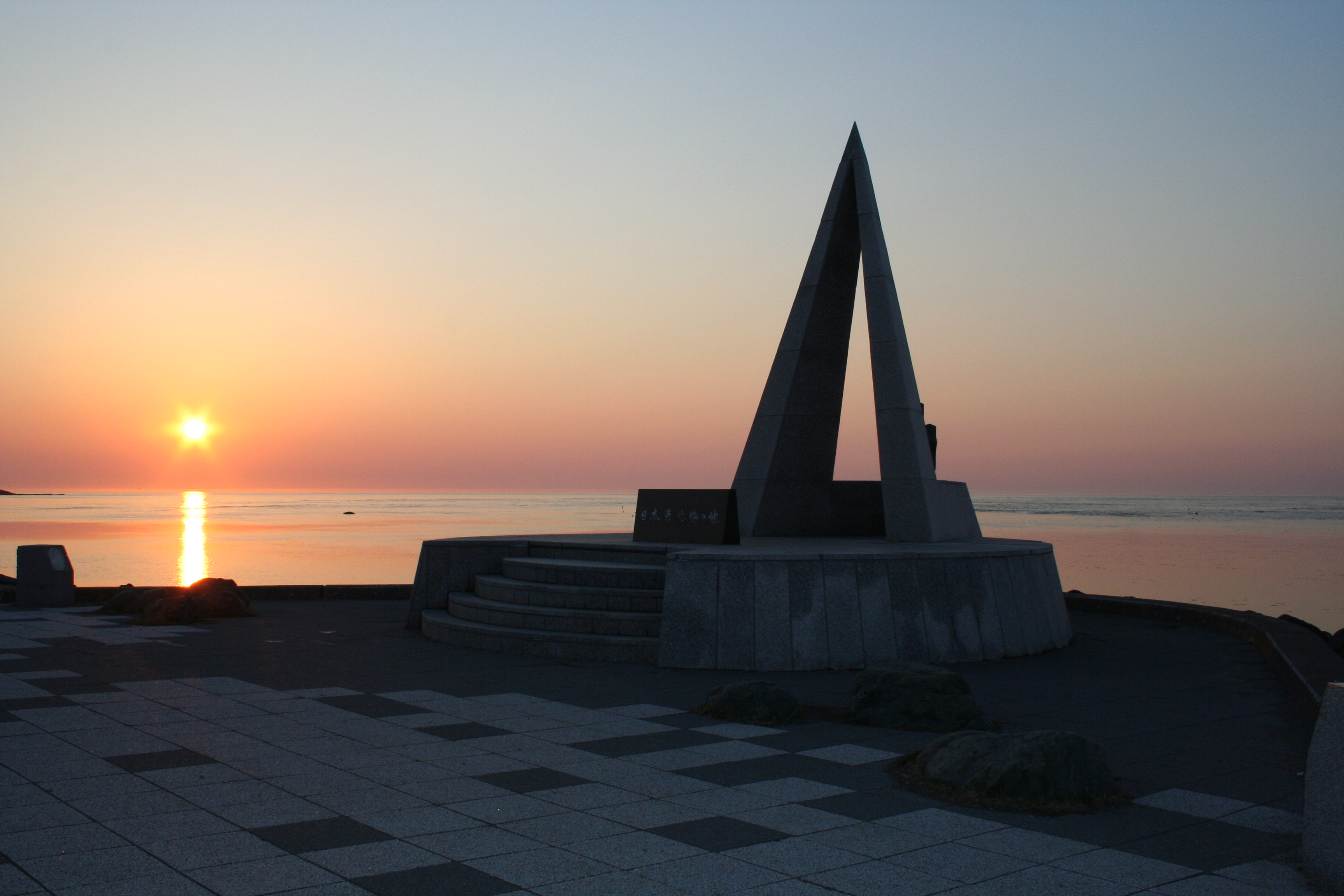 Sunset_of_Cape_Soya（宗谷岬の日没）,北海道稚内市で撮影